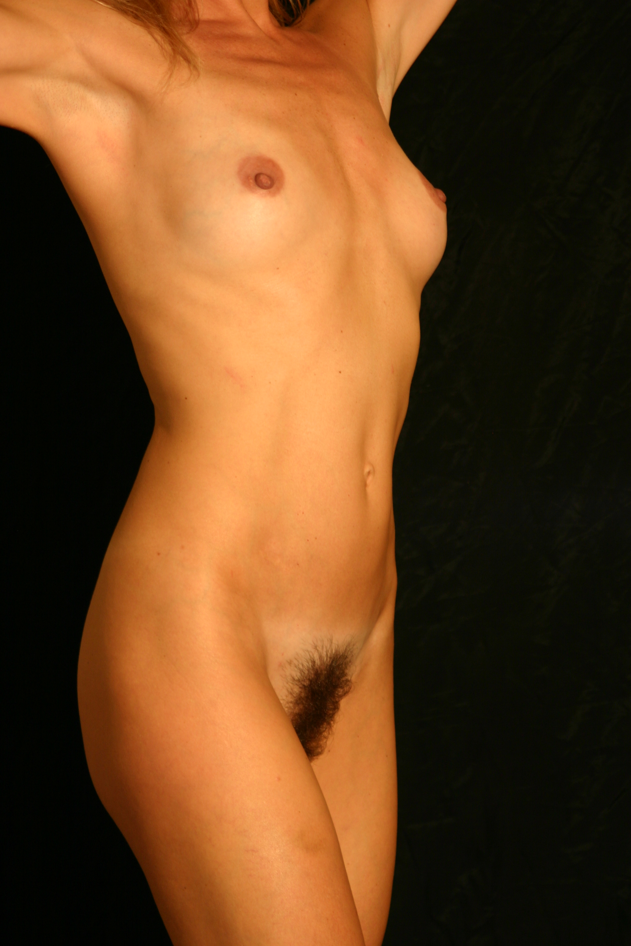 Female body